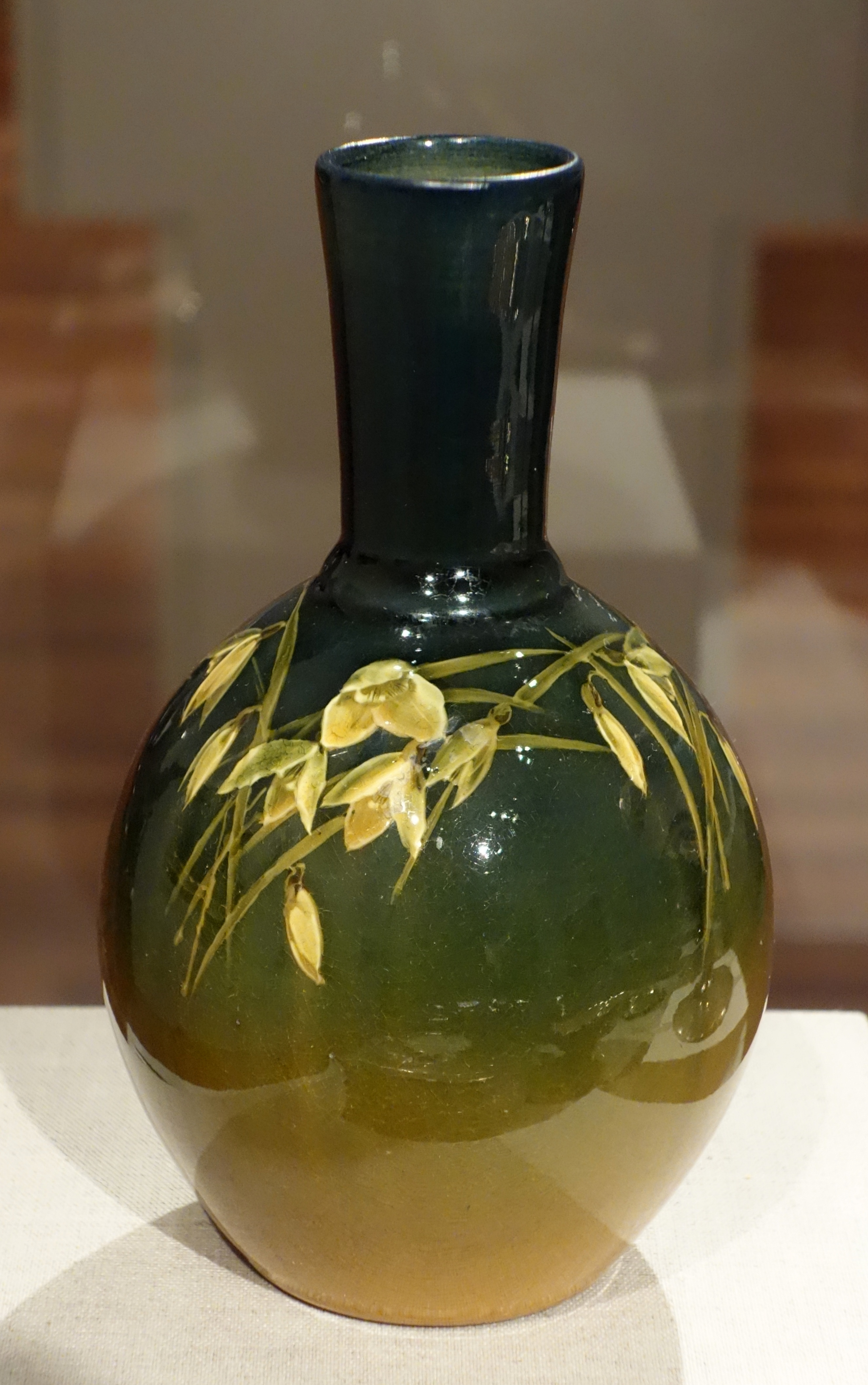 Exhibit in the De Young Museum, San Francisco, California, USA. This artwork is in the public domain because the artist died more than 70 years ago.